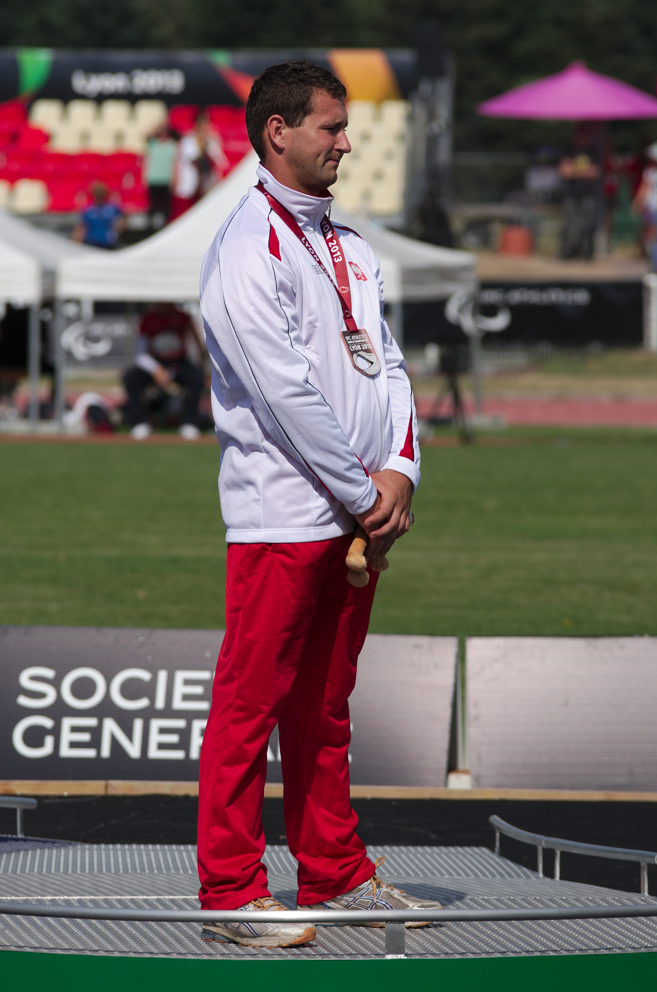 Pawel Piotrowski bronze of the Men's Shot put - F36